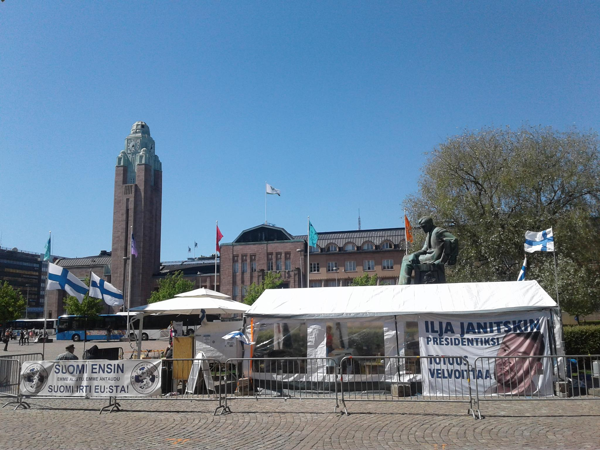 Finland First movement counter-demonstration at Helsinki Railway Square against illegal immigrants and their illegally staying in Finland.